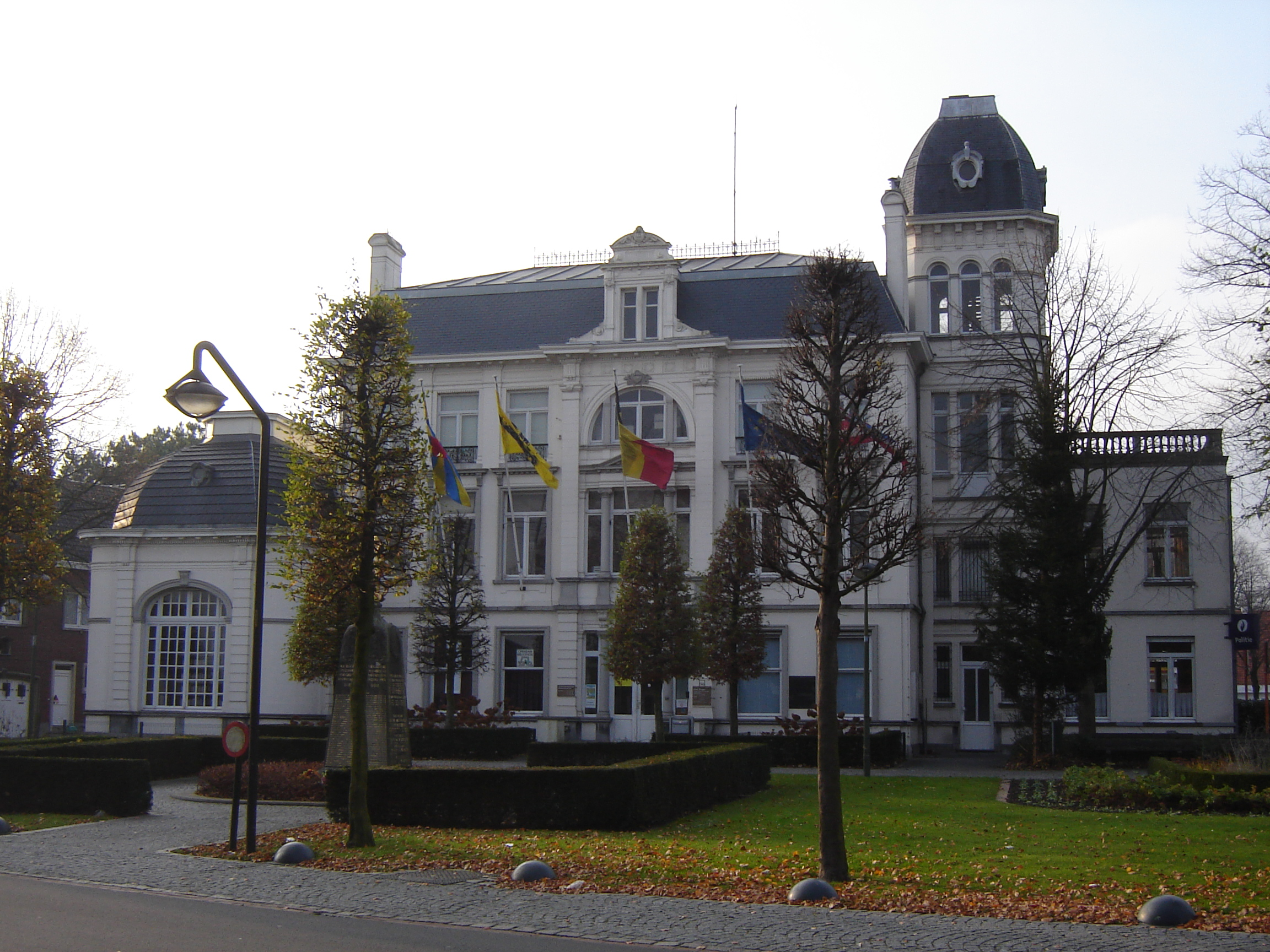 Former castle "Bloemenoord" en former town hall of Sint-Michiels. Sint-Michiels, Brugge, West Flanders, Belgium.